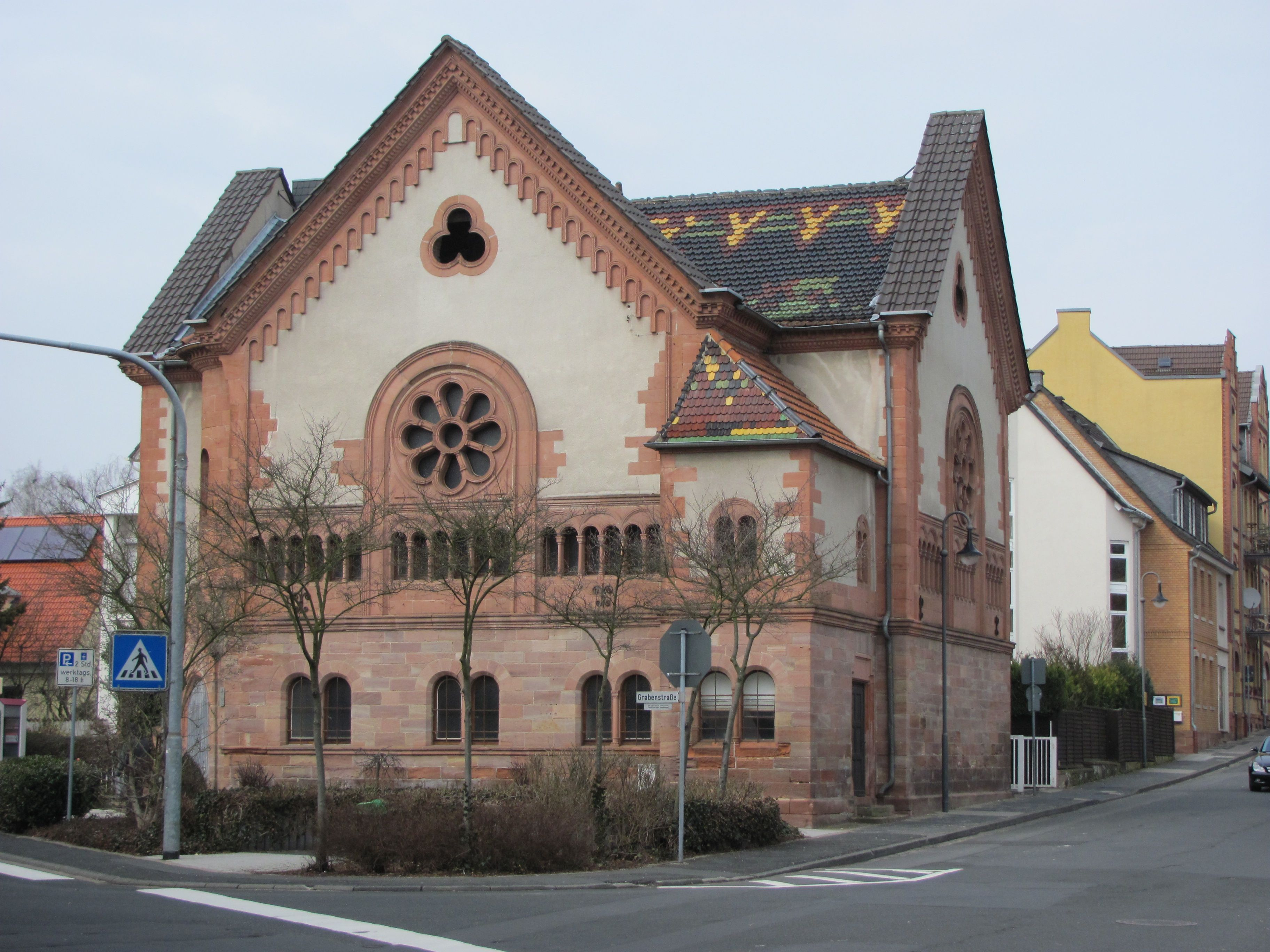 Synagogue Schlüchtern, Germany